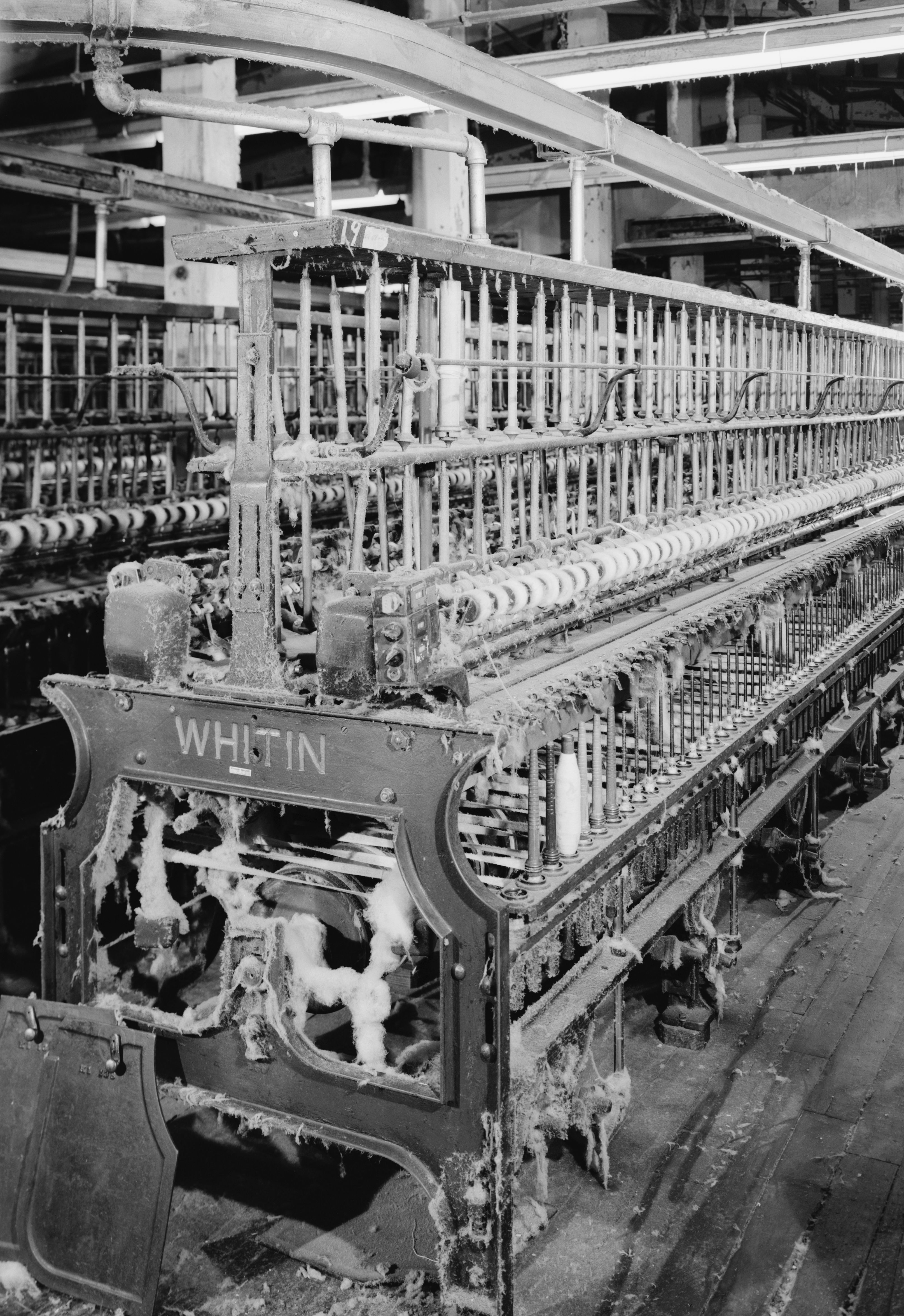 Whitin Spinning Frame, Bamberg Cotton Mill, Bamberg, South Carolina